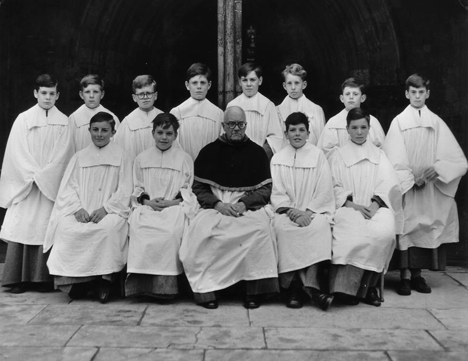 Photograph of Horace Hawkins with the Choir of Chichester Cathedral, in 1958